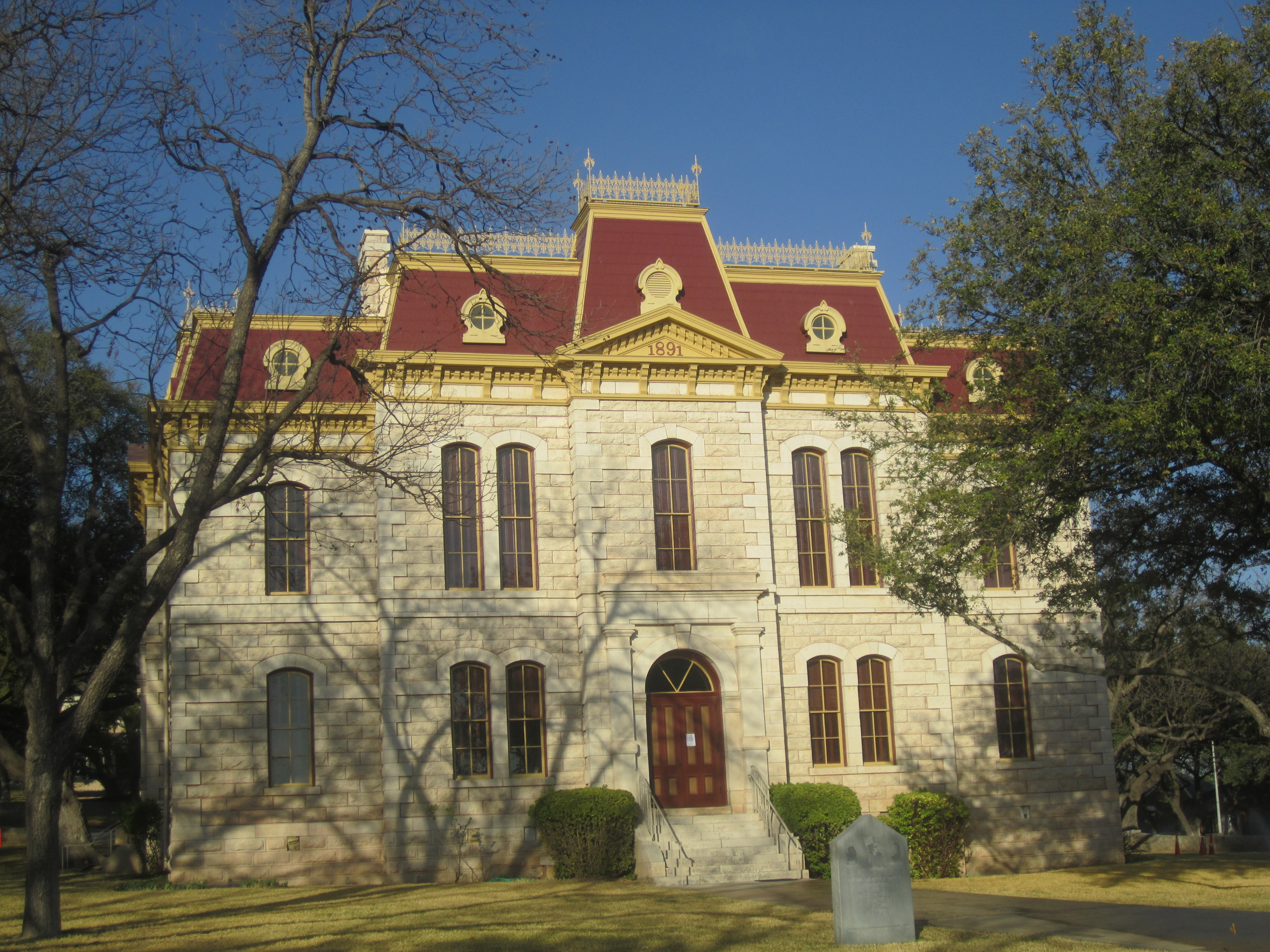 I took photo with Canon camera in Sonora, TX.